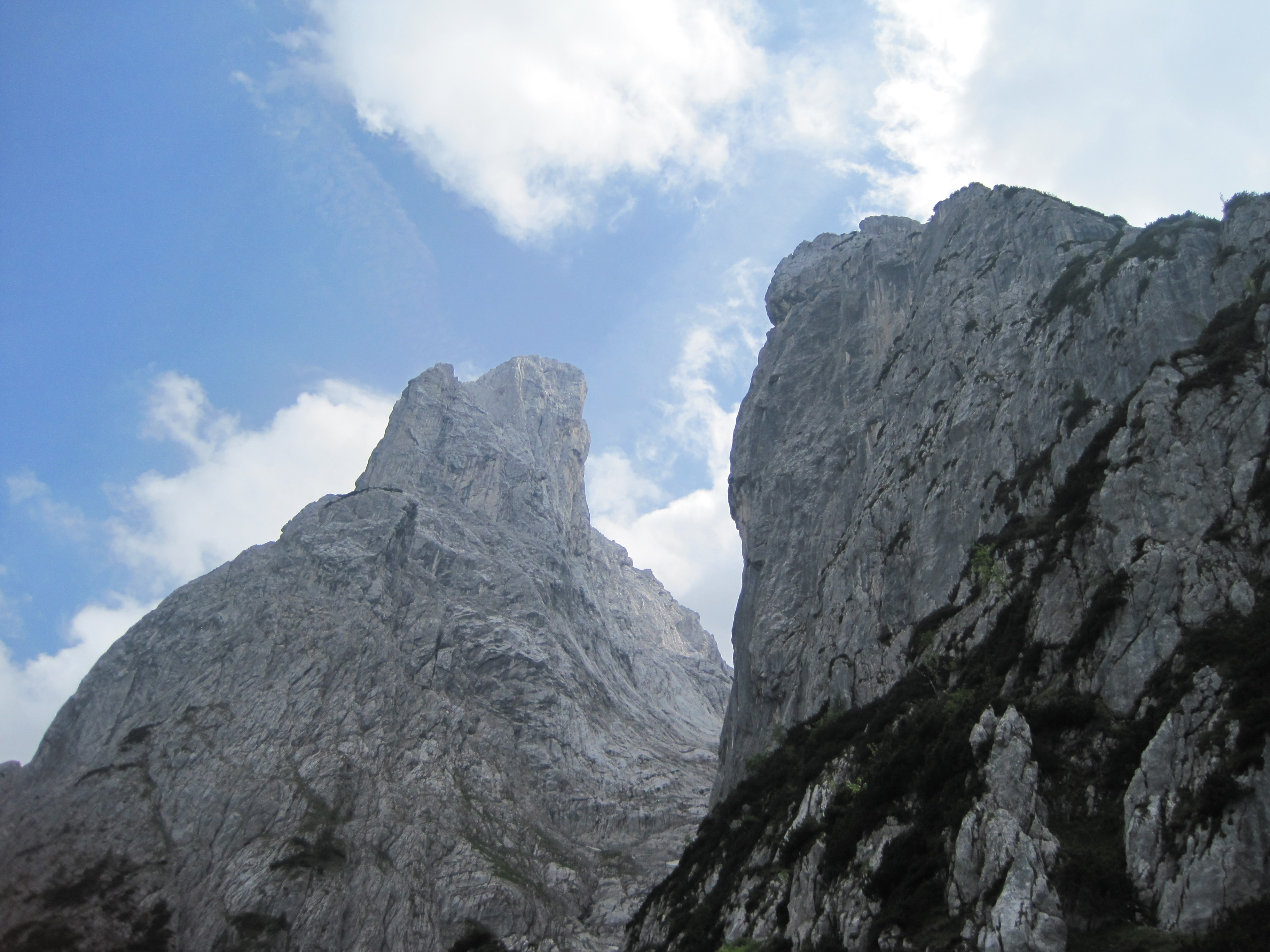 The rock Fleischbankpfeiler in the alps